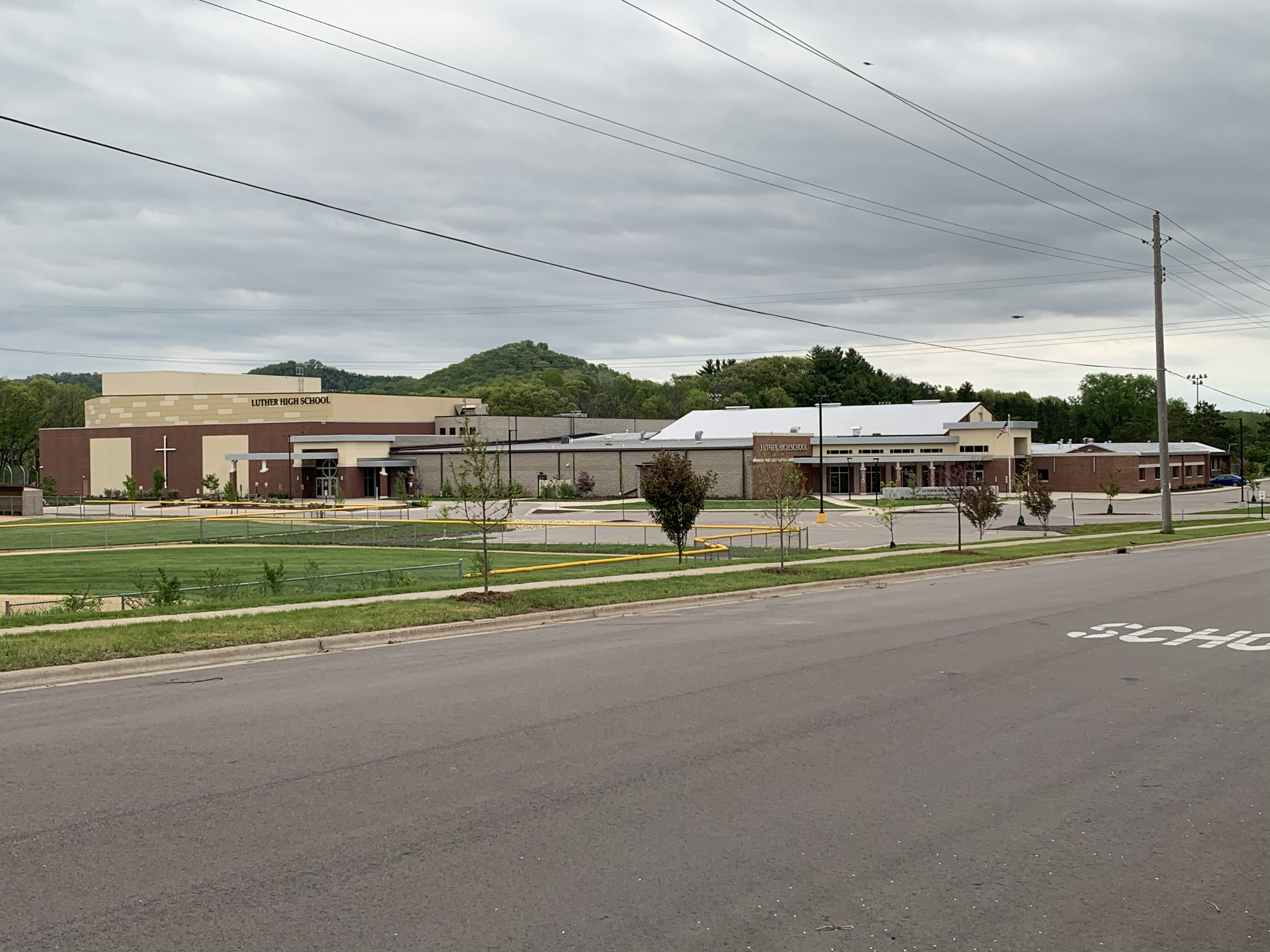 This image shows Luther High School in Onalaska, WI.